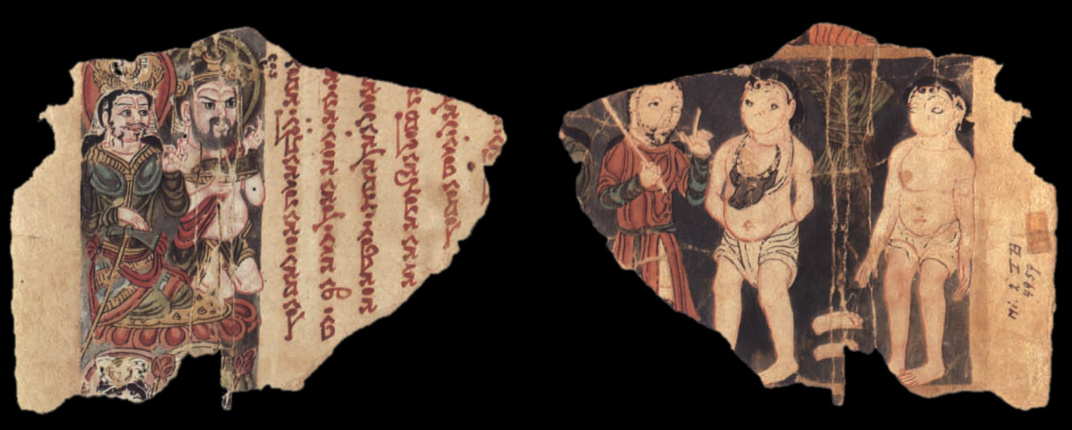 Fragment of Uyghur Manichaean service book illuminated with Two Plaintiffs from Judgment and Rebirth of Laity, leaf from a Manichaean book, Khocho, Temple α., ca. 8th-9th. Manuscript painting, 8.2 x 11.0 cm. MIK III 4959.